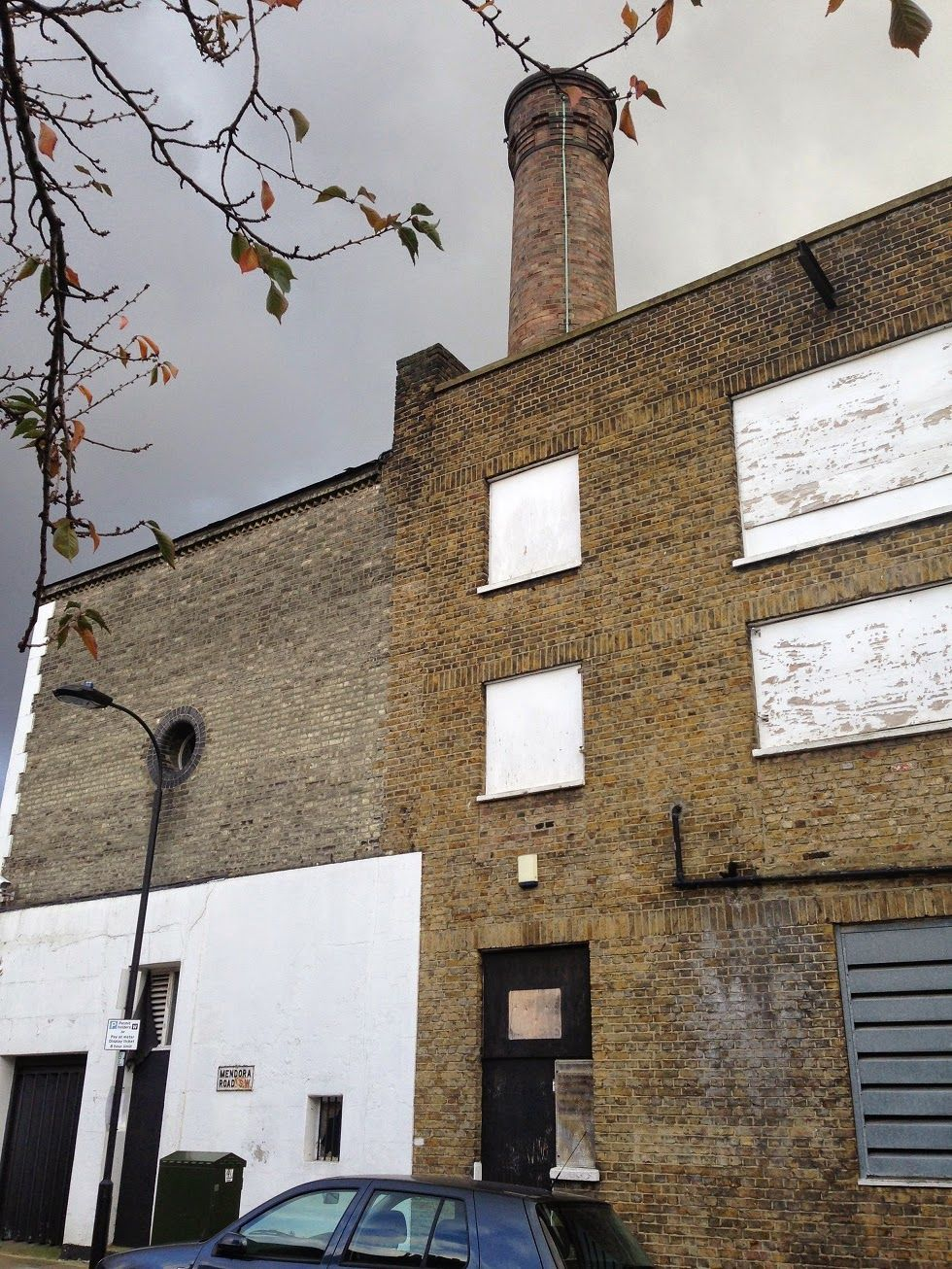 Mid Victorian chimney stack from 19th-c. steam operated carpentry works